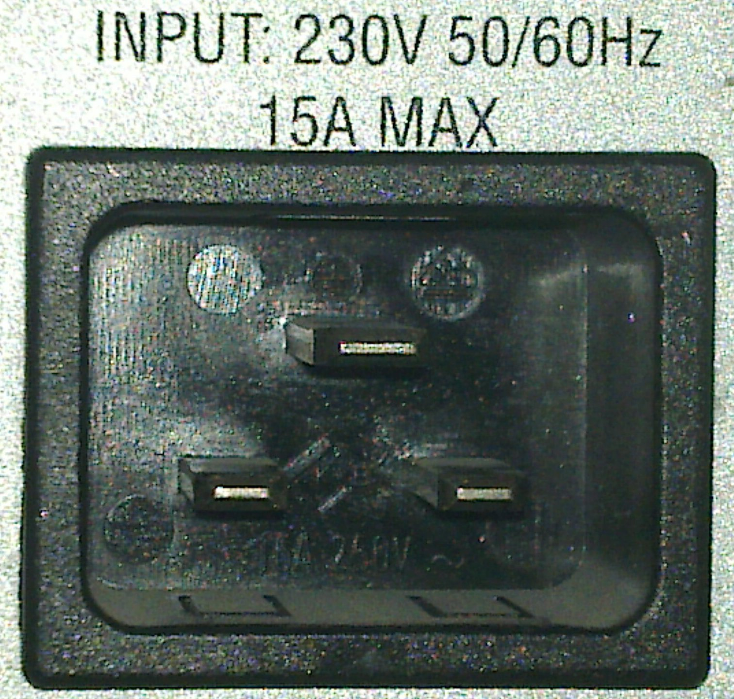 This is a photo of an IEC 60320 C20, 16A Socket (from an APC UPS, labeled as 15A max)